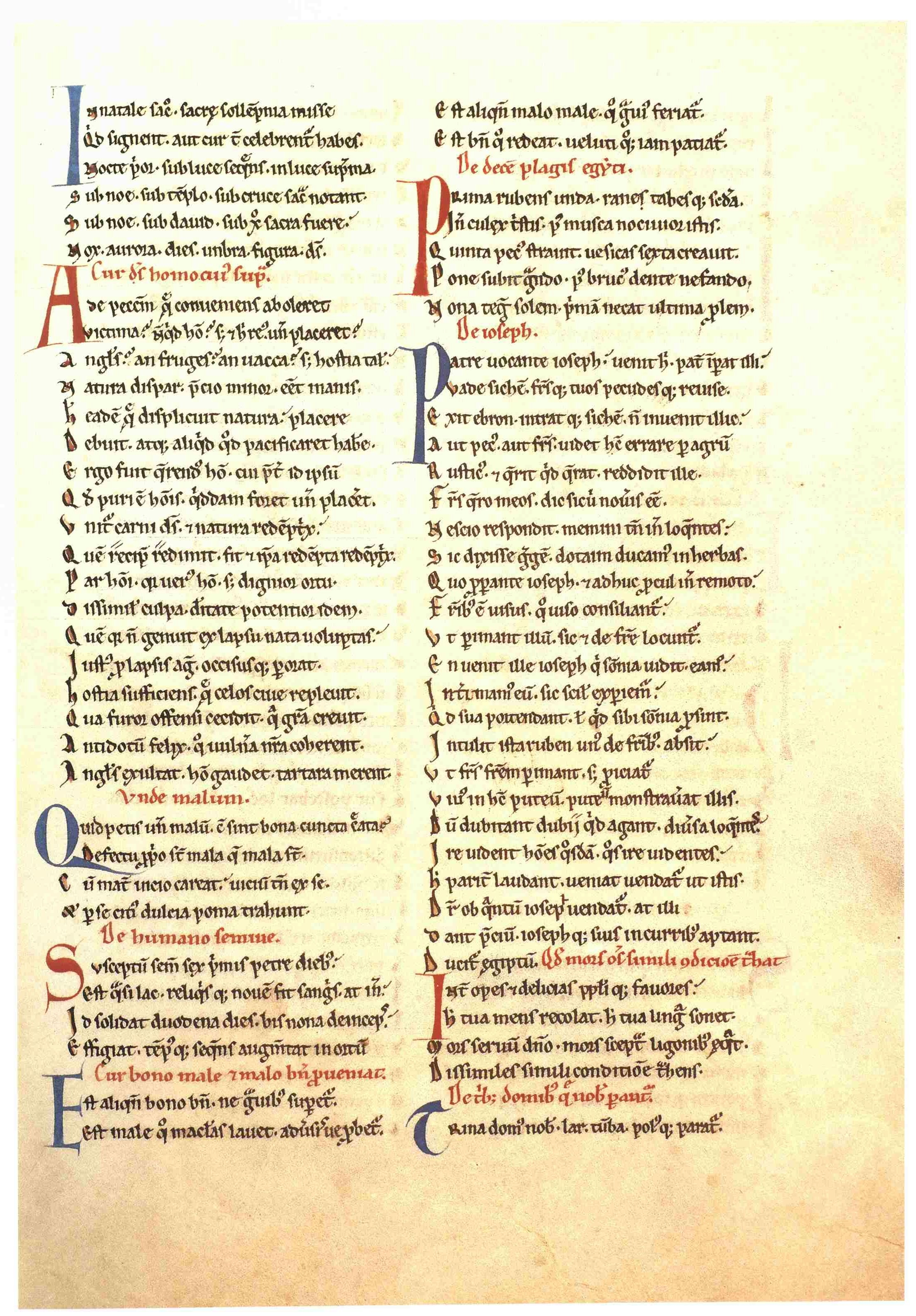 Poems of Hildebert in the manuscript Berlin, Staatsbibliothek, Ms. lat. fol. 591, fol. 77r.